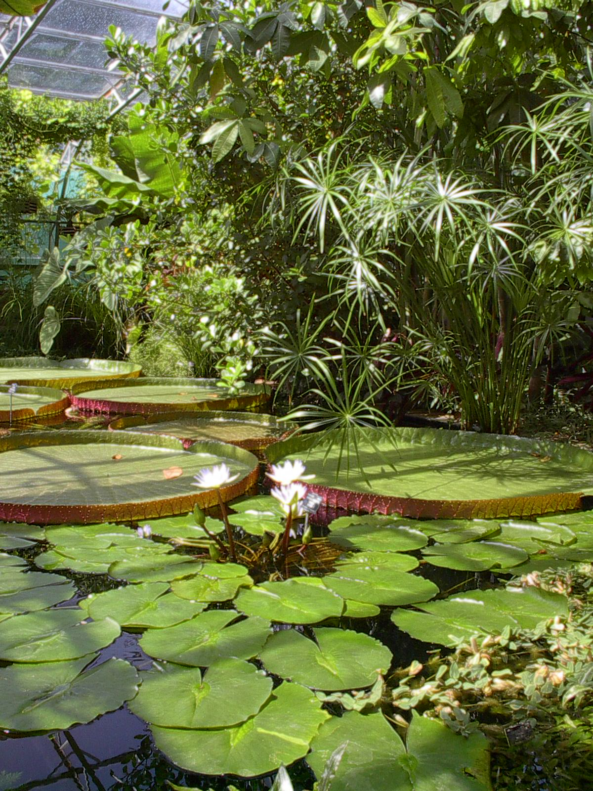 Inside the tropical greenhouse at Oxford, home of the oldest botanical garden in England